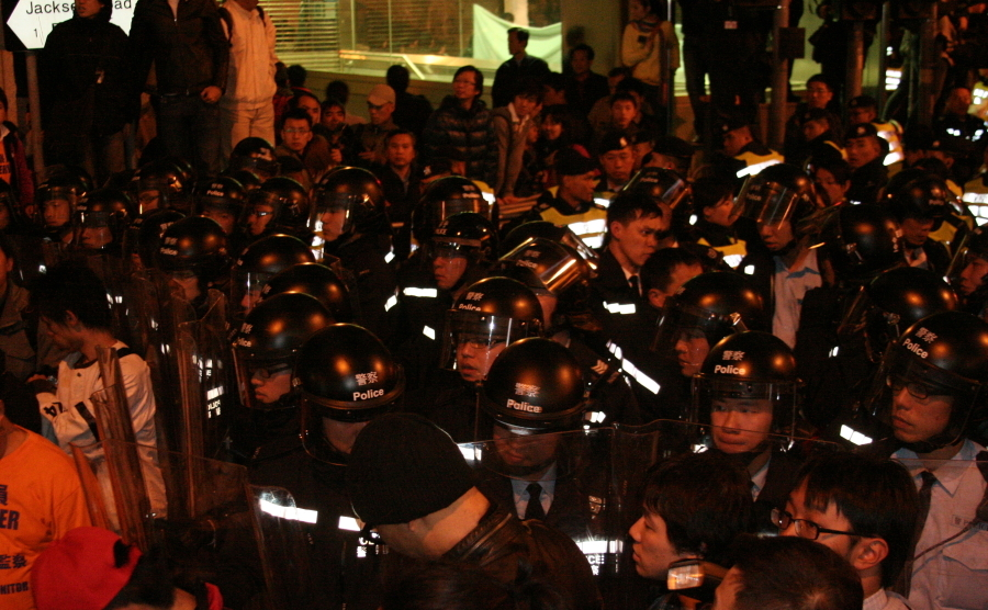 Anti-Guangzhou-Shenzhen-Hong Kong rail oppositions Jan 2010 protest